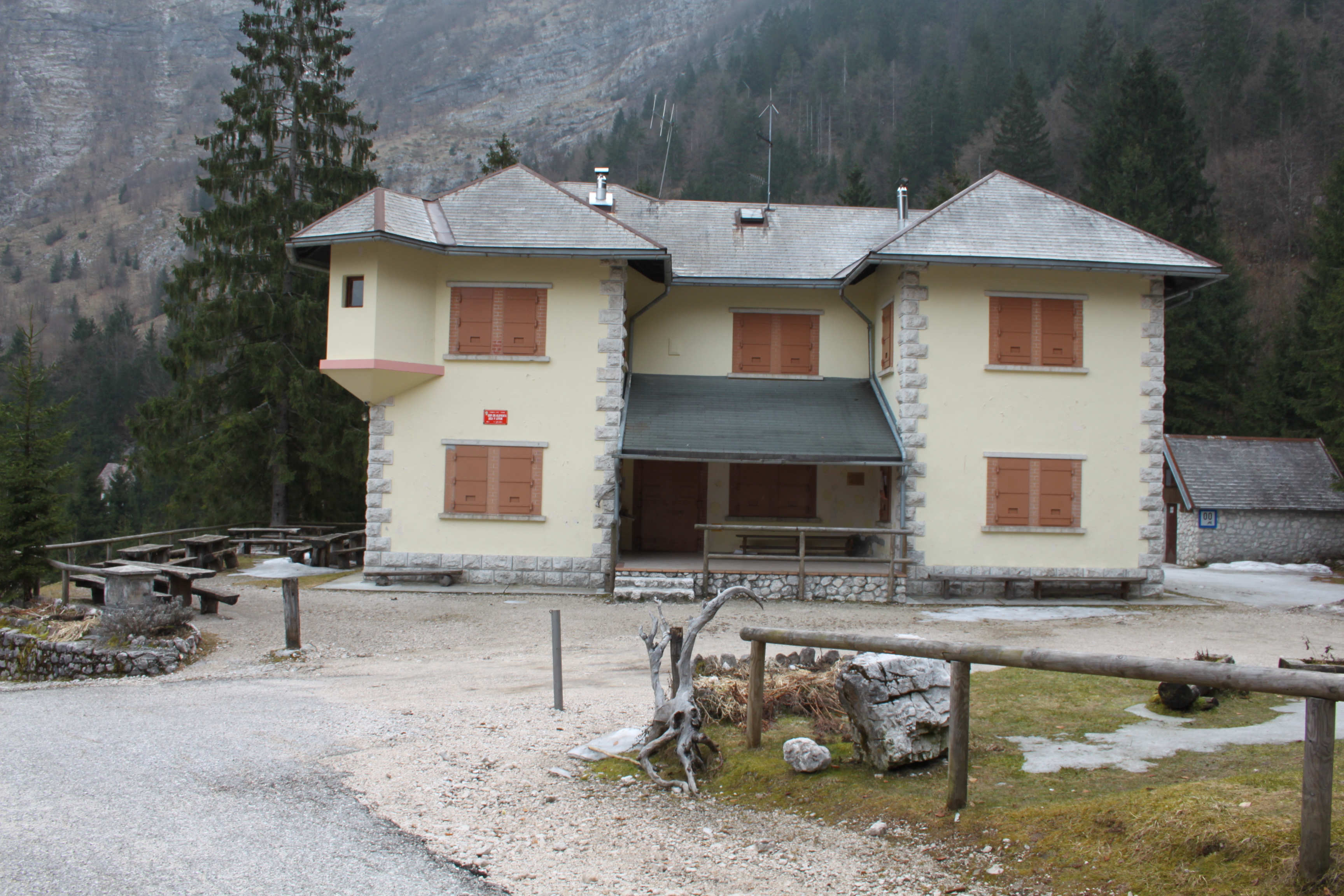 Dr. Klement Jug's alpine hut in Lepena valley, Slovenia.